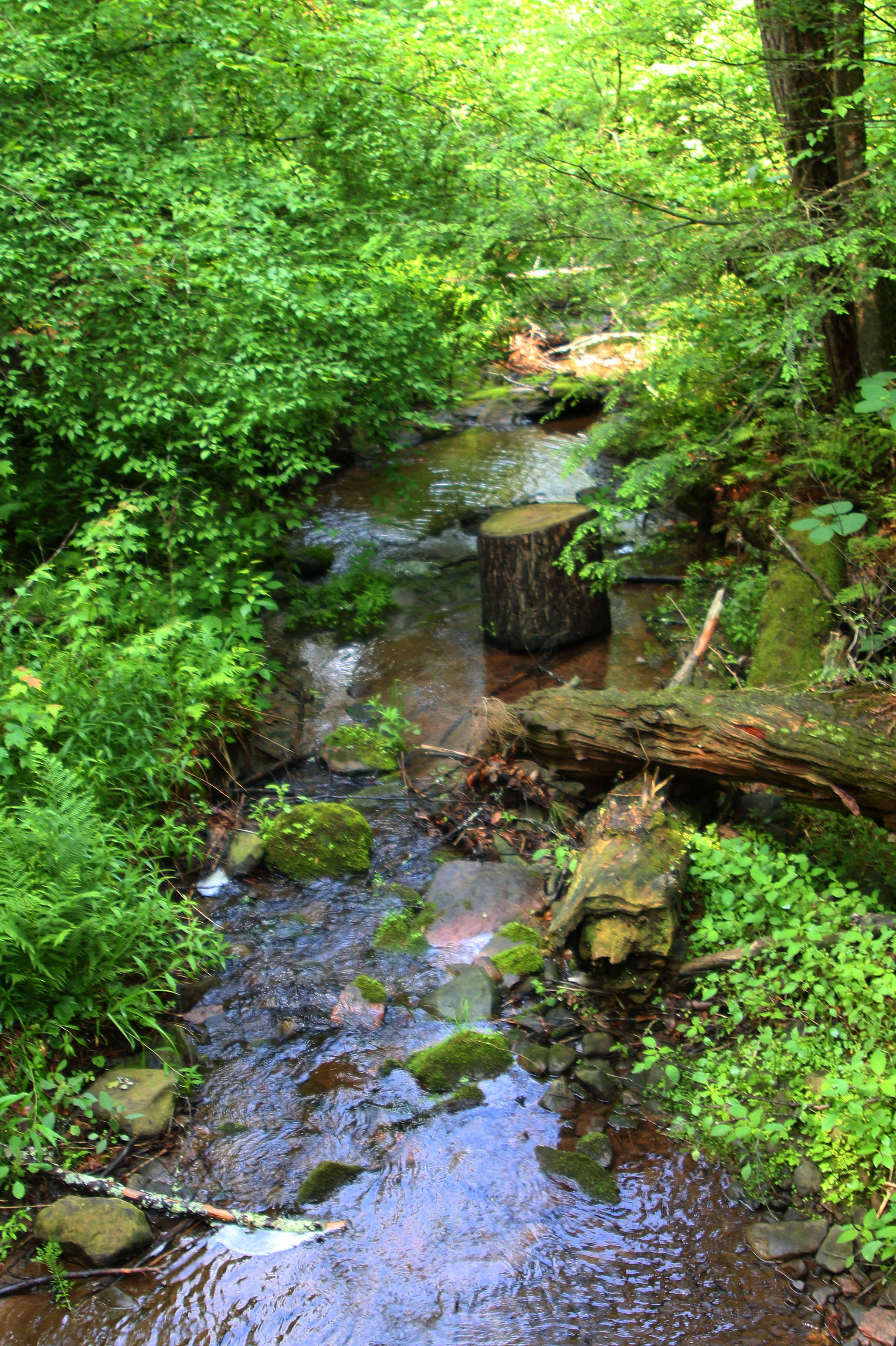 Boston Run, a tributary of Kitchen Creek, looking downstream from the Evergreen Trail in Ricketts Glen State Park